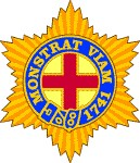 For its distinctive unit insignia the Corps adopted an insignia that it had been using on its colors, buttons and belt buckles since 1786 and possibly earlier. The insignia is a variation of that worn by the Coldstream Guards of the British Army. It is based on the star of the Order of the Garter, which King William III authorized for use on the colors of the Coldstream Guards in 1696. The Corps' insignia is a red cross on a yellow disc, with a blue garter belt bearing the motto and date Monstrat Viam 1741 resting on a gold six-pointed star.